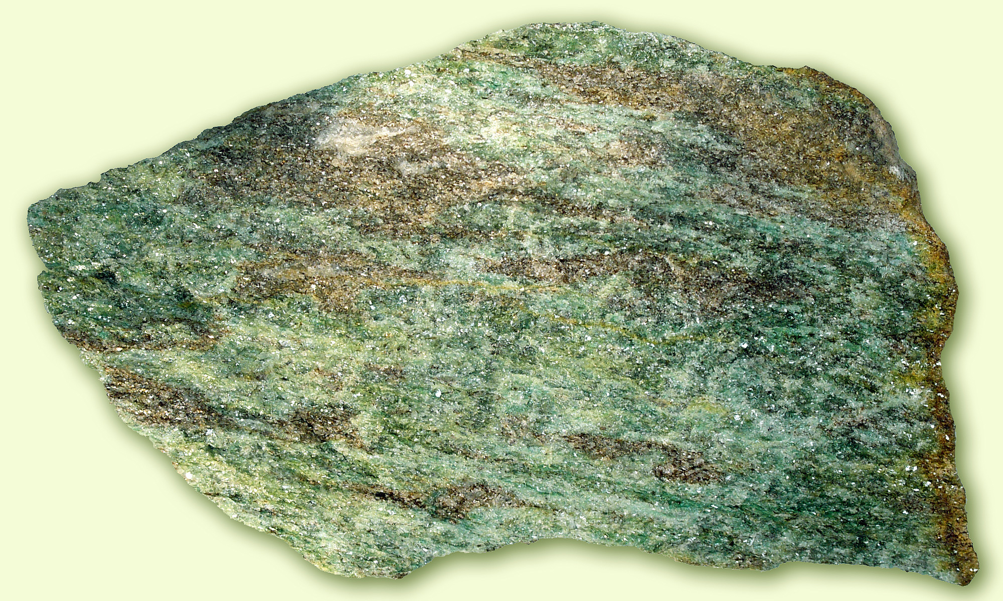 to be done